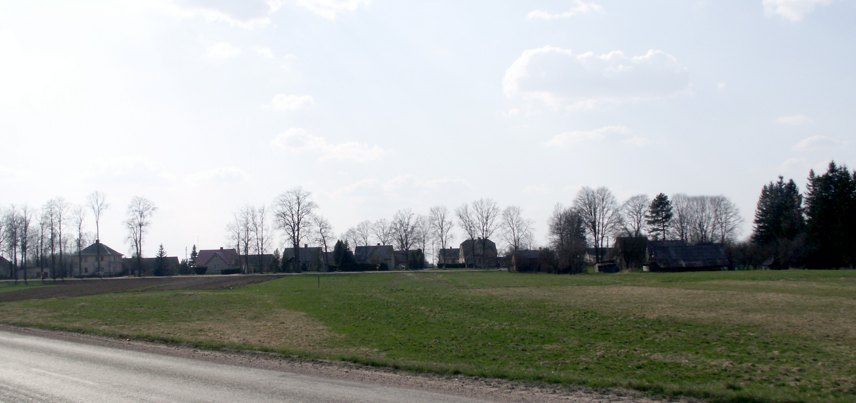 Liesiškis, Biržai district, Lithuania